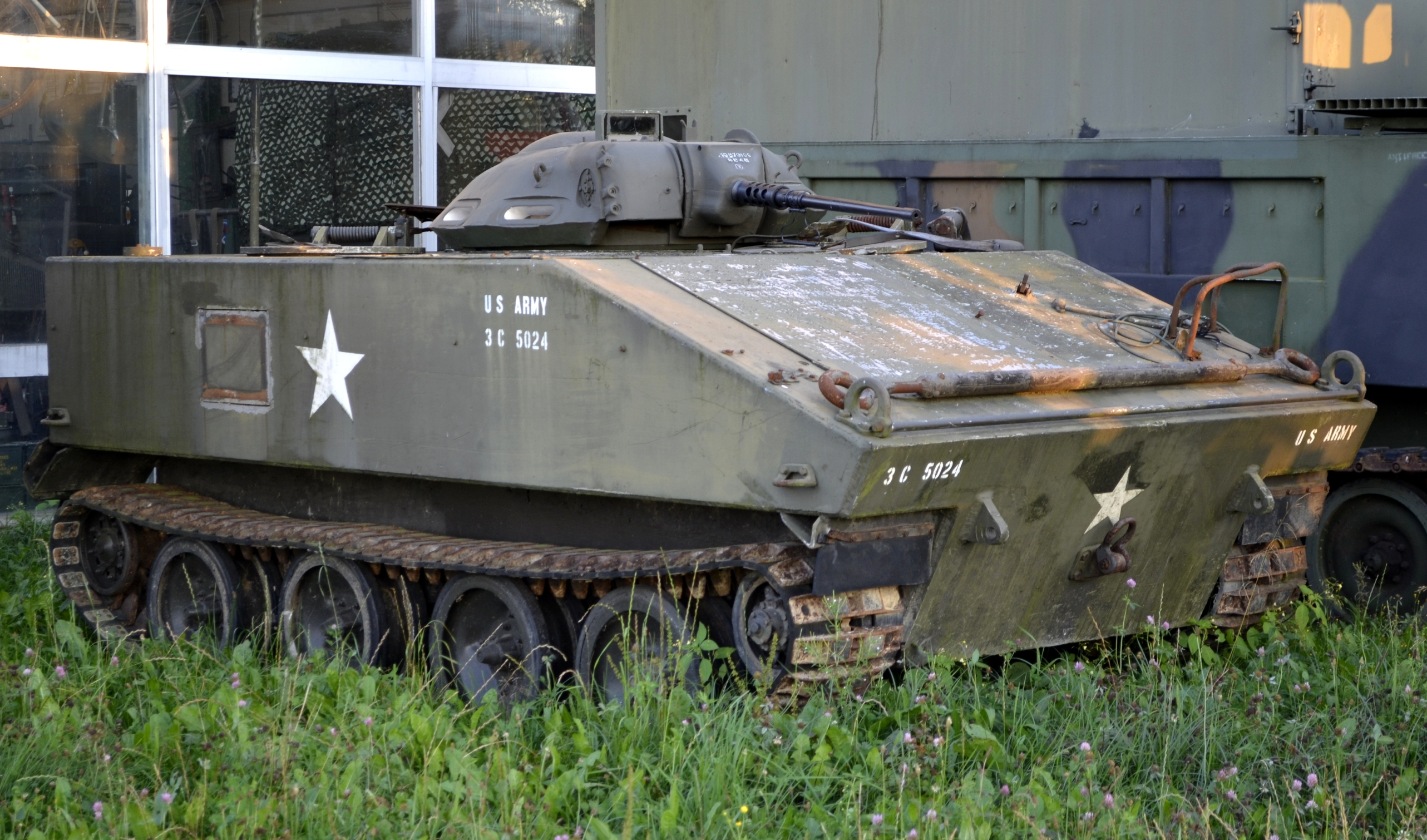 M114A2 armored fighting vehicle.